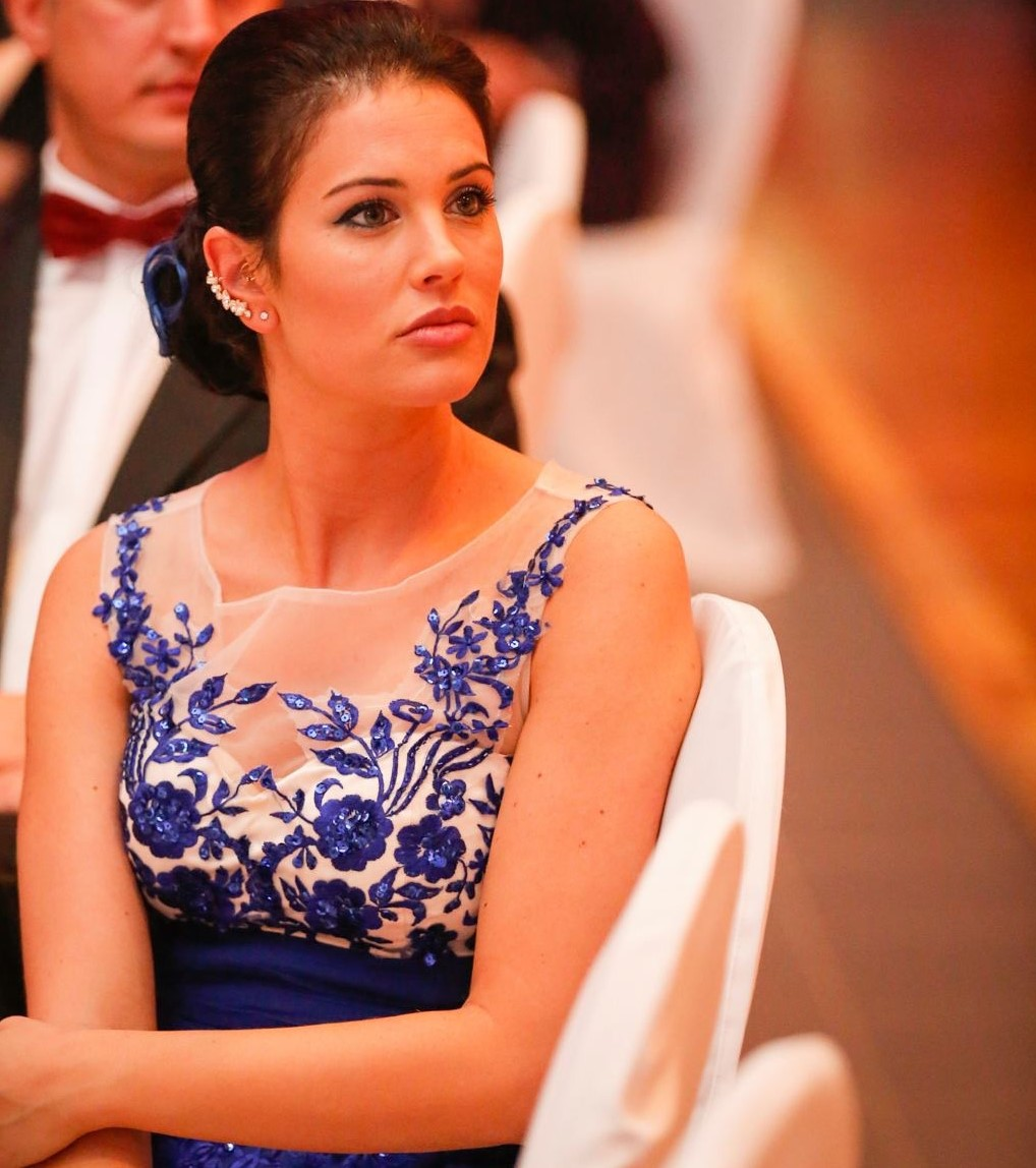 Giuliana Marino on an event 2016 in Nuremberg, Germany.